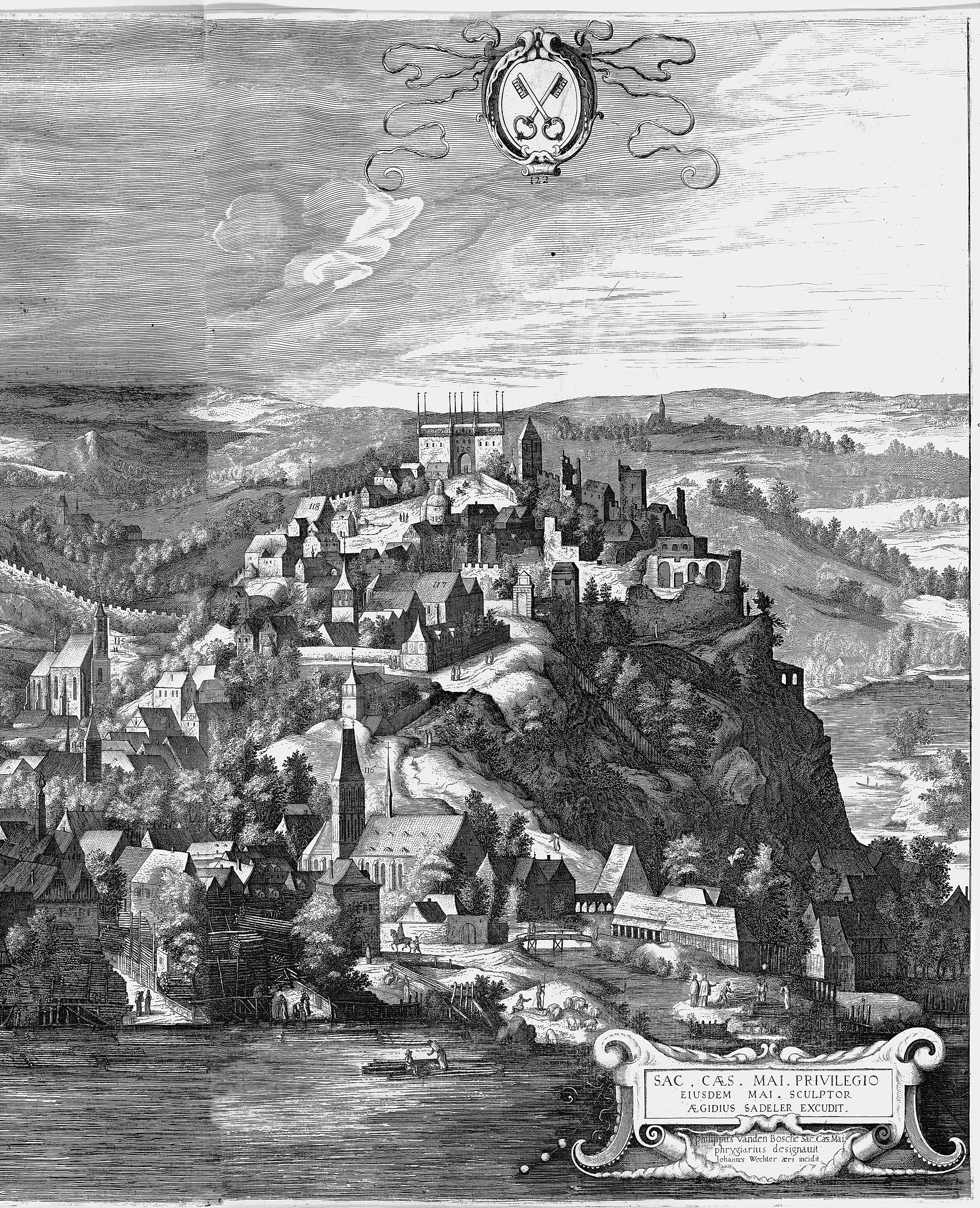 Print; Prints